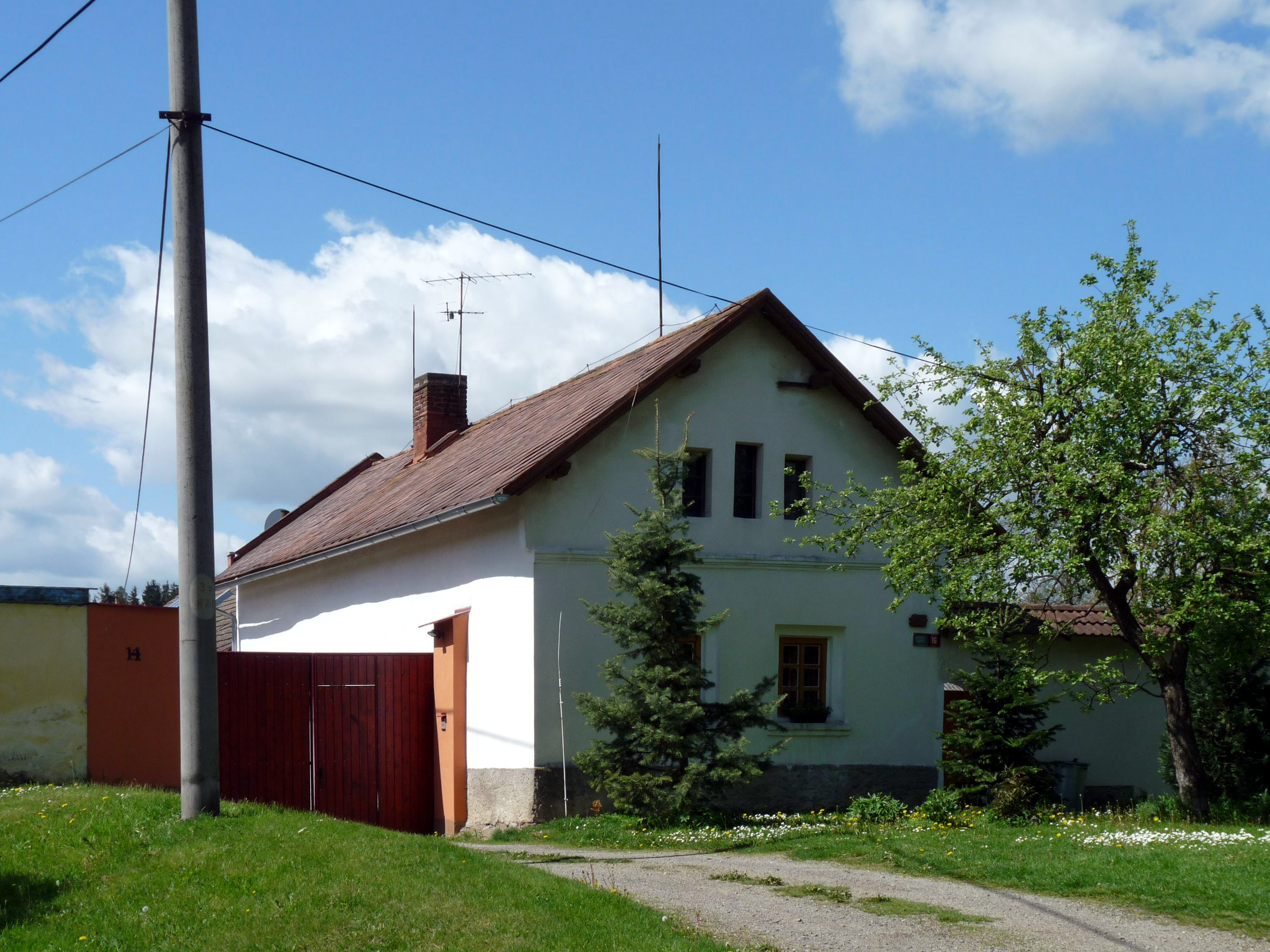 House No 14 in the village of Macourov, Havlíčkův Brod District, Vysočina Region, Czech Republic.